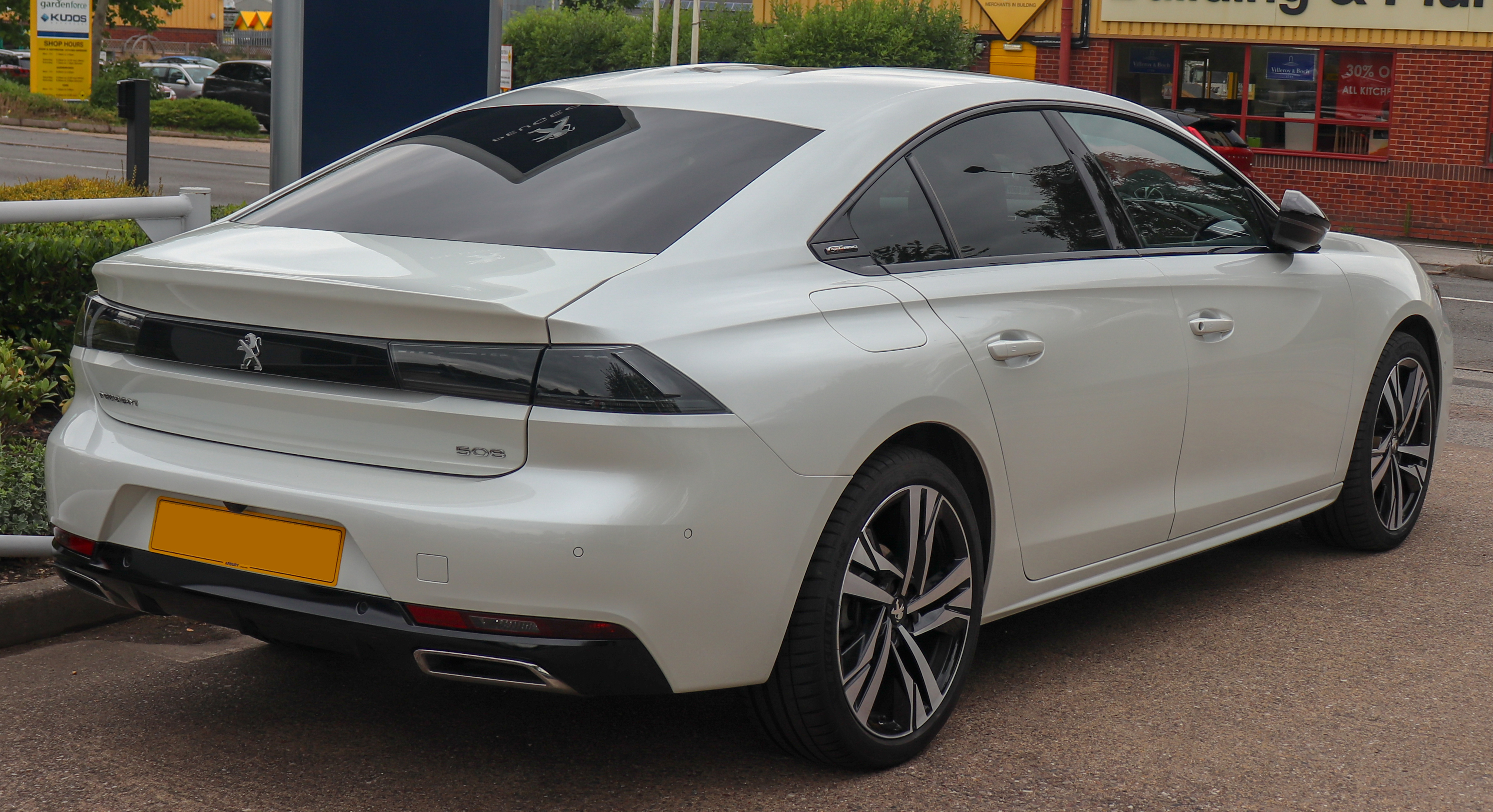 2019 Peugeot 508 GT-Line BlueHDi 1.5 (130 PS) Rear Taken in Leamington Spa